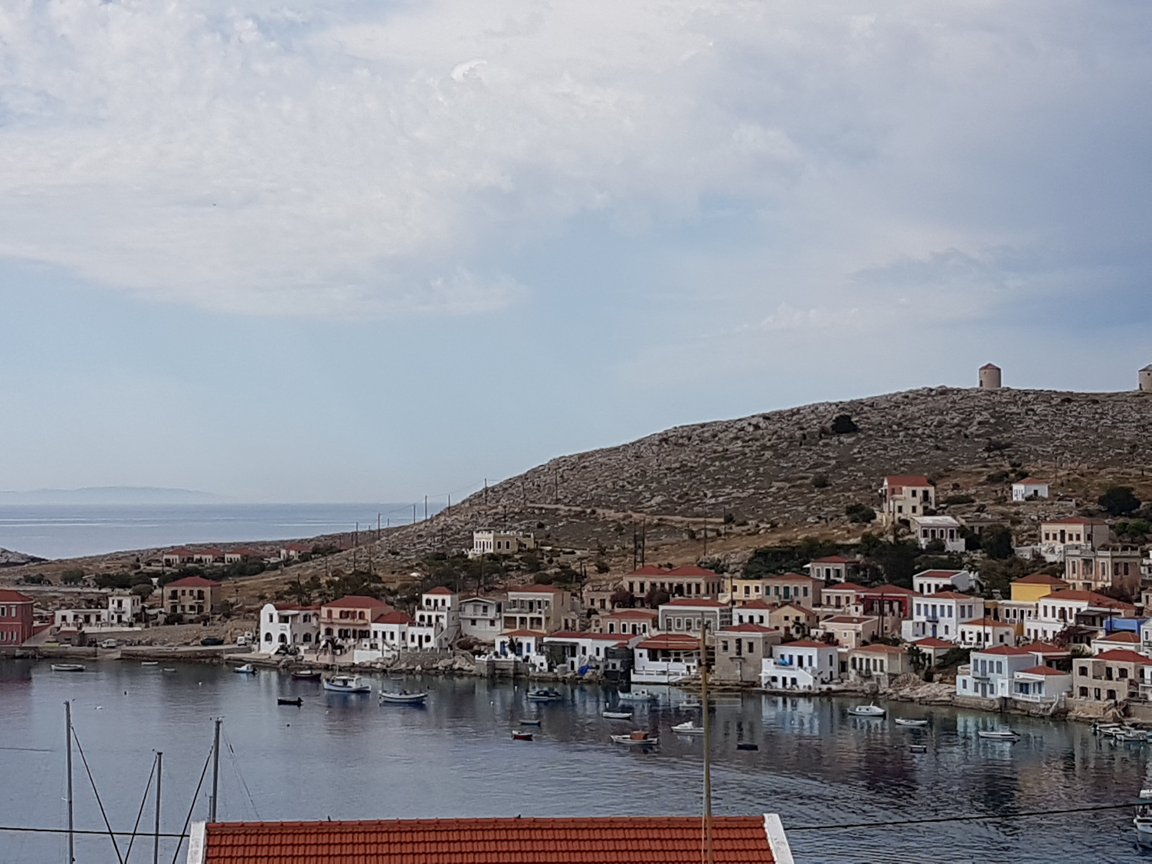 This is a photography of Natura 2000 protected area with ID GR4210026